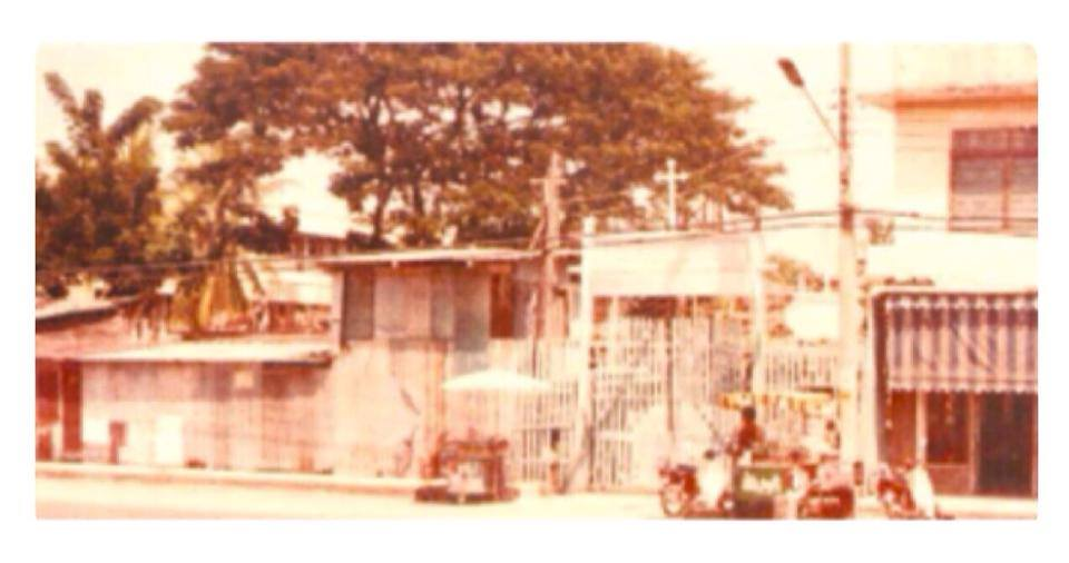 1ประตูทางเข้า โรงเรียนมารีย์วิทยา นครราชสีมา ในยุคแรก...ยังเป็นประตูไม้ทาสีฟ้าขาว แล